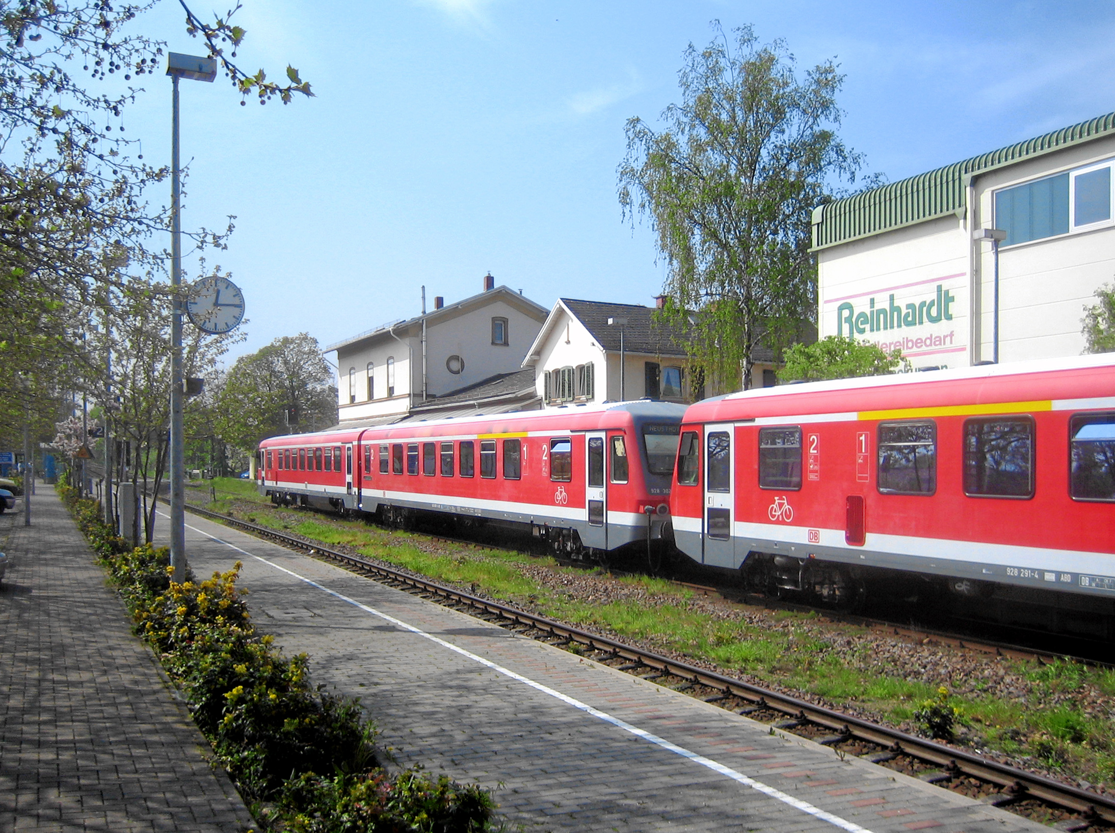 I took this photograph myself in April 2007 and hereby release it to the public domain to the maximum extent allowable in relevant jurisdictions